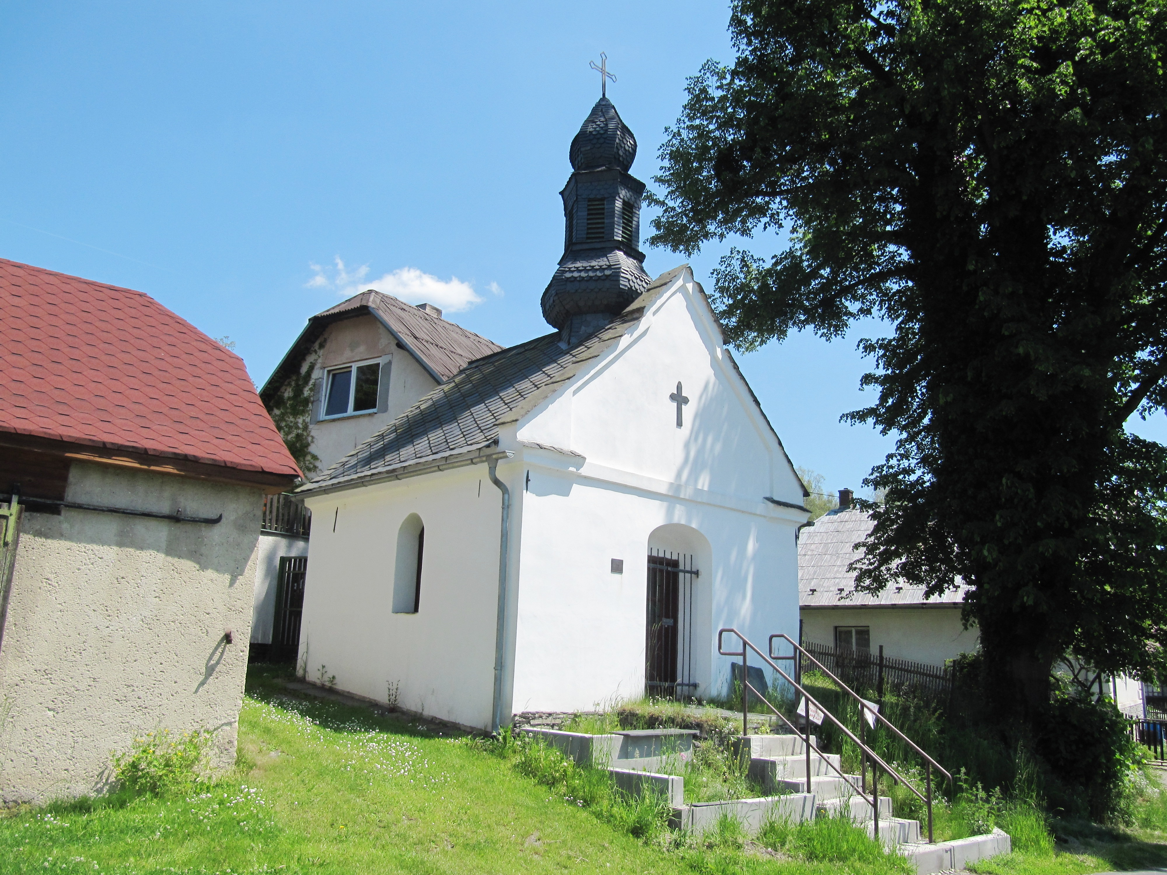 Vítkov, Opava District, Czech Republic, part Zálužné.